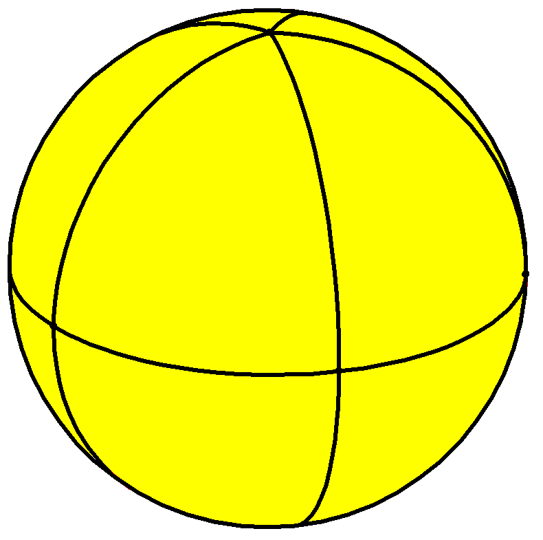 Spherical polyhedron